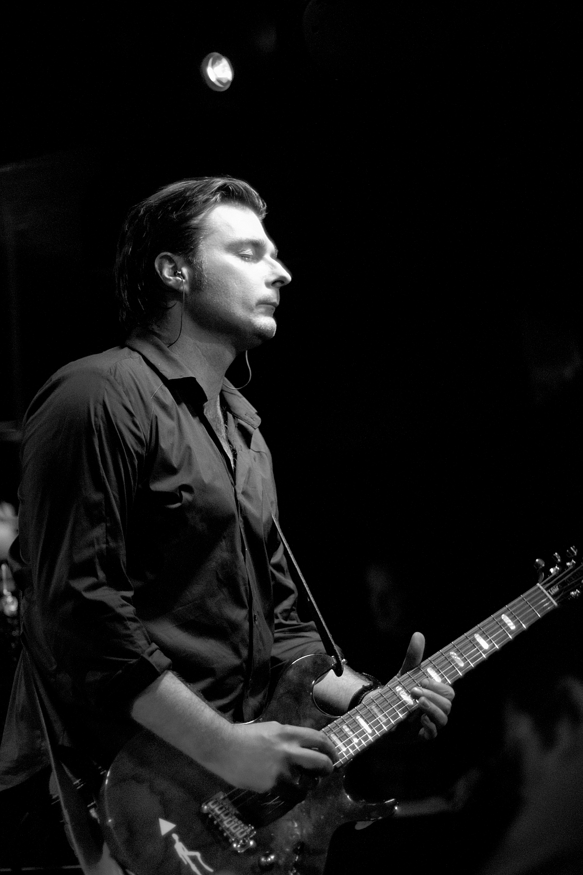 Jon-Arne Vilbo of Gazpacho